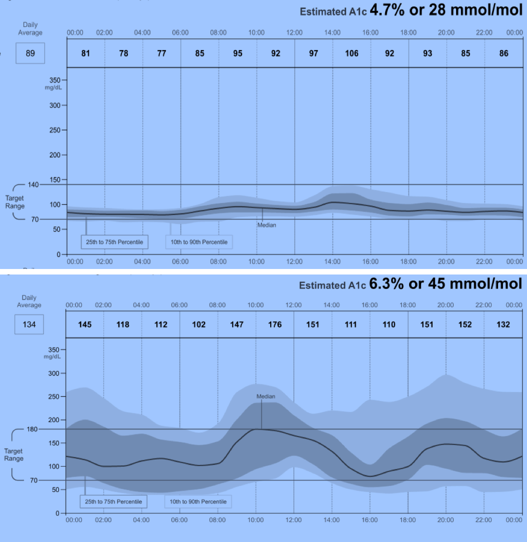 CGM of FGM data are plotted by time ignoring date and subjected to smoothing using five frequency percentile curves: 10th, 25th, 50th (median), 75th and 90th. The top panel is a person with normal glucose metabolism. The center (50th percentile curve) dark line represents overall glucose exposure (mean 89mg/dL). The bottom panel is a person with type 1 diabetes (mean 134mg/dL). The AGP shows significant variability indicated by the darkened area on either side of the median (25th-75th percentile curves--known as inter-quartile range or IQR) is very wide when compared with the normal pattern in the top panel. The IQR represents the area in which 50% of the glucose values will fall. The lighter area on either side of the IQR represents the inter-decile range within which 80% of all values will fall (the area between 10th to 90th percentile curves).The target range, set between 70-180mg/dL, in the bottom panel shows that overnight and mid-afternoon there is a risk of hypoglycemia, while mid-day there is a risk of hyperglycemia. Additionally, while the median curve in the top panel is almost flat, in the bottom panel it oscillates, indicating unstable glucose levels.